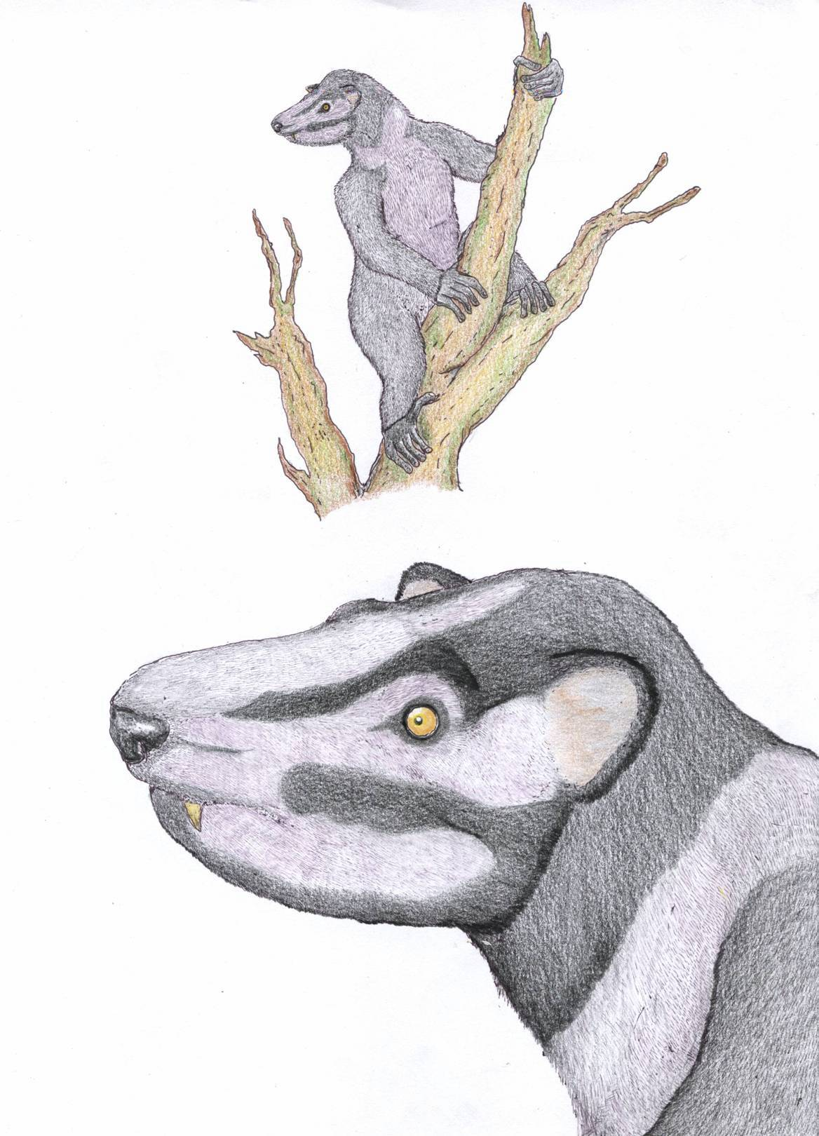 Close up of Megaladapis edwardsi